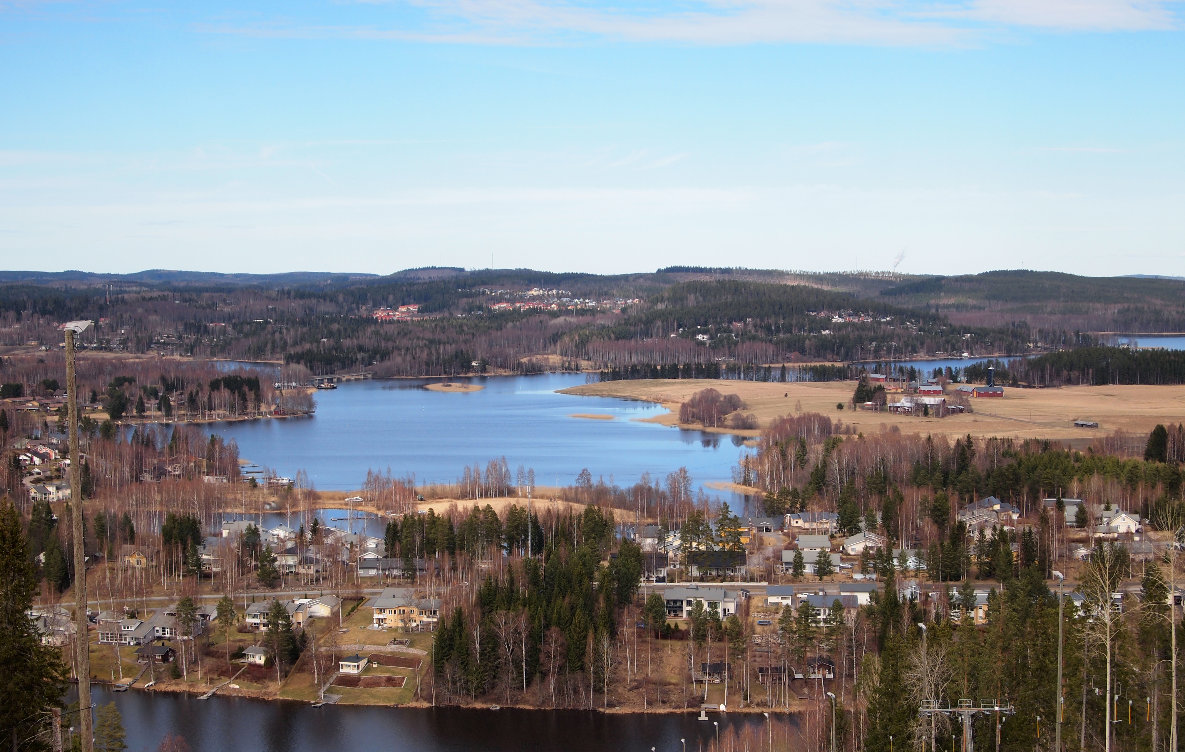 View from Riihivuori hill to Muurame. This photograph was taken with an Olympus E-PL1